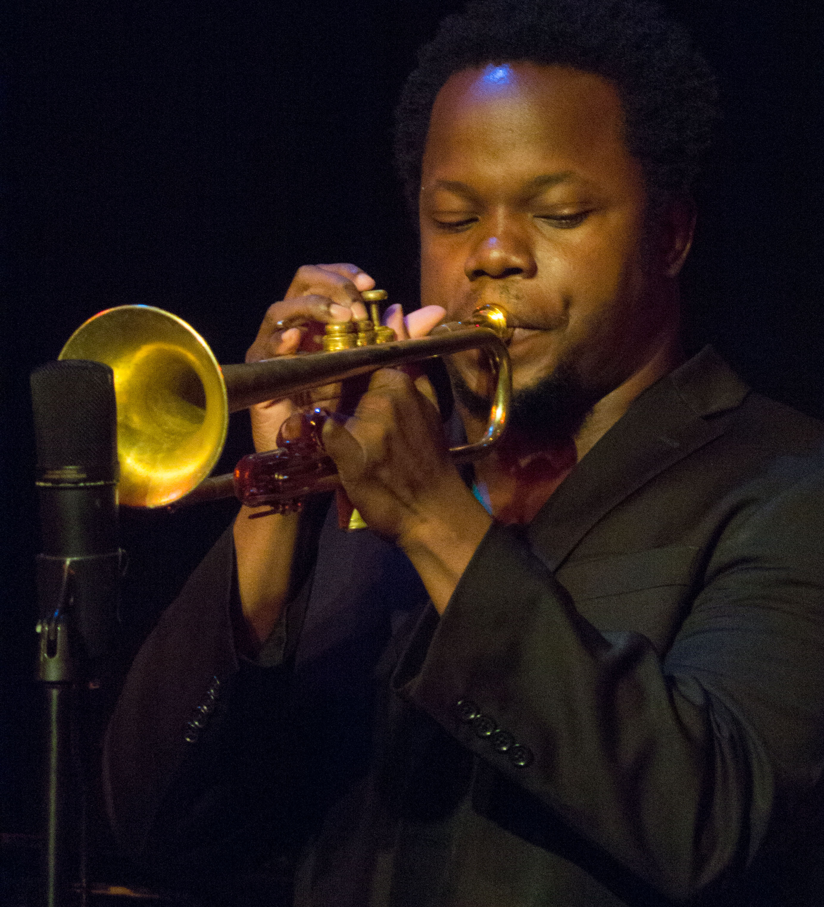 Ambrose Akinmusire performs June 24 in Oakland, Calif.